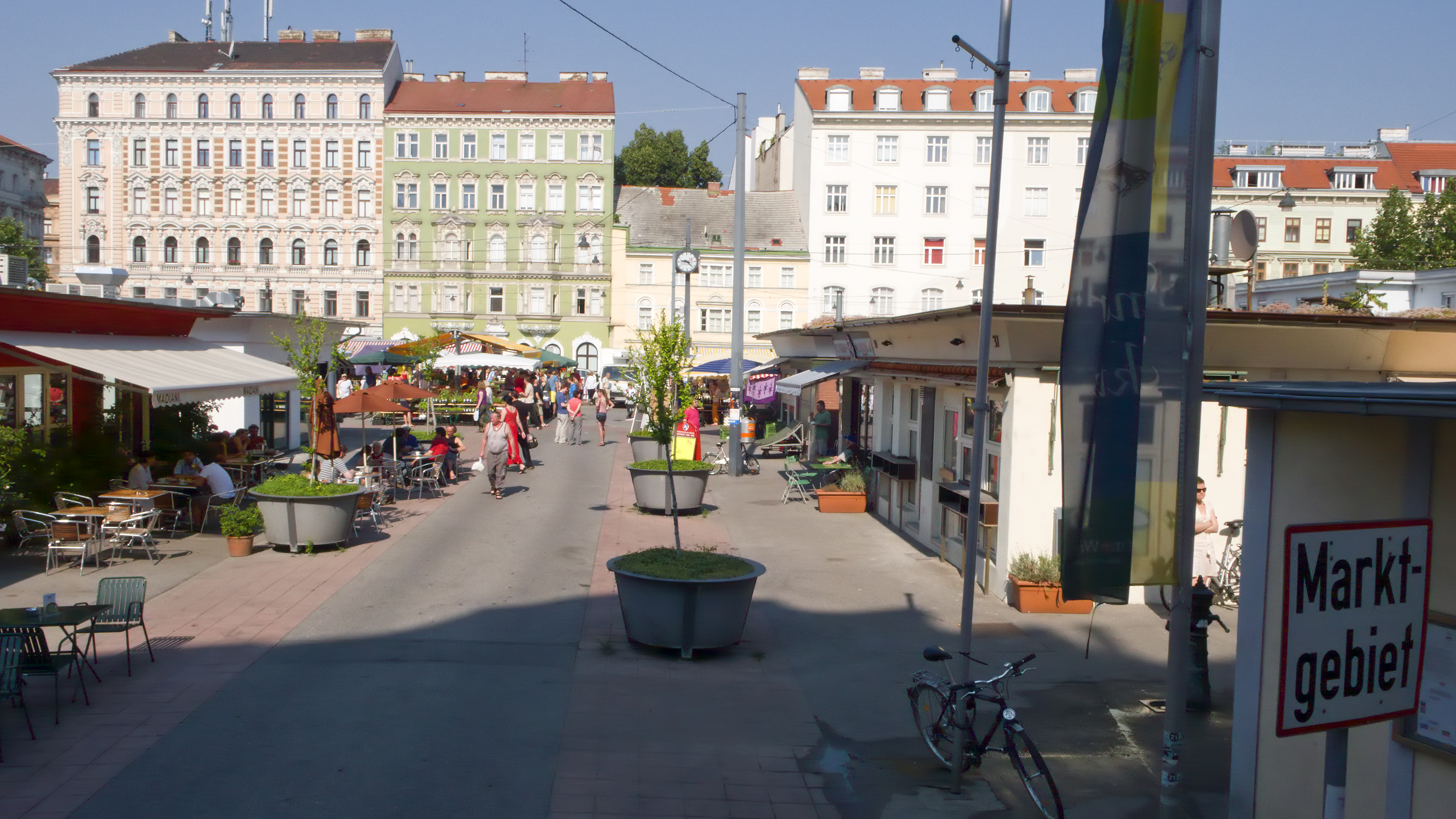 Market Karmelitermarkt in Vienna Leopoldstadt